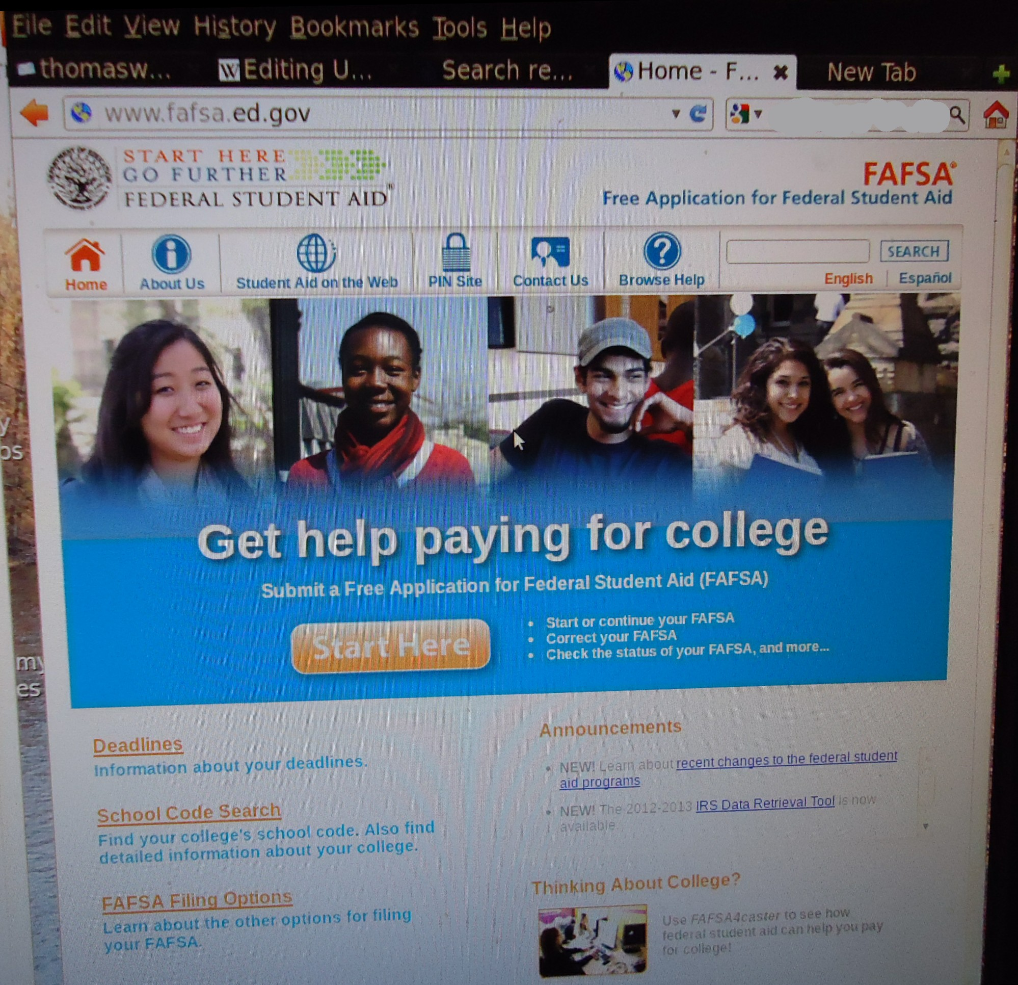 This is a photo taken using my camera of my computer screen, which showed the image from the U.S. government website for the FAFSA, or Free Application for Federal Student Aid. Parents of college-bound applicants file this form which is used by admissions offices at colleges and universities to help determine whether the college will offer financial aid to a student.